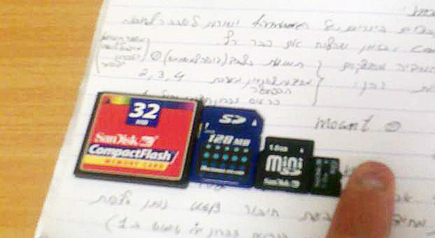 Took it myself.mohmd Left to right: CompactFlash, SD, MiniSD, and MicroSD